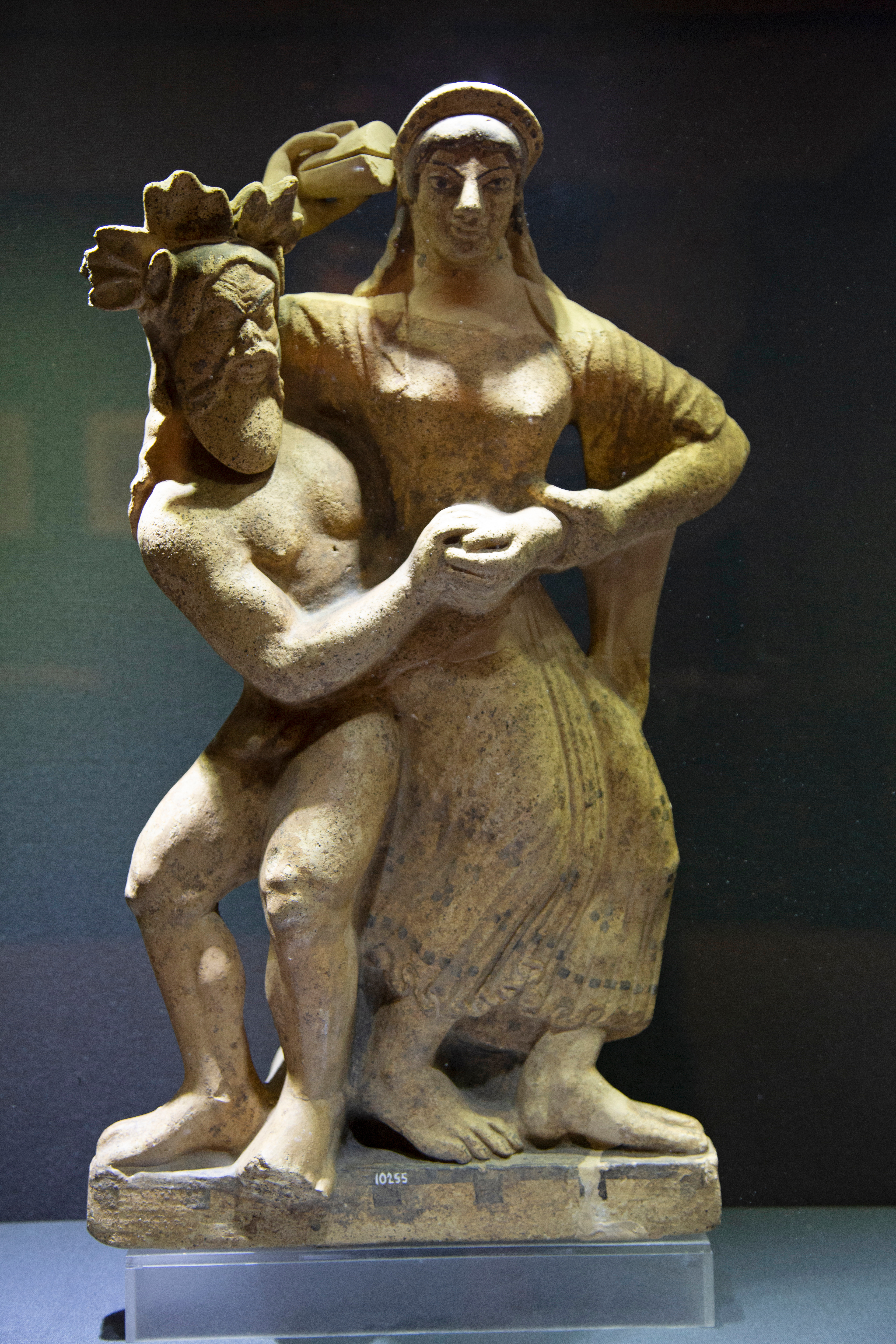 Antefix with Satyr and Maenad dancing from Satricum (Latium vetus) 490-470 BC. Museo nazionale etrusco di Villa Giulia, Rome.